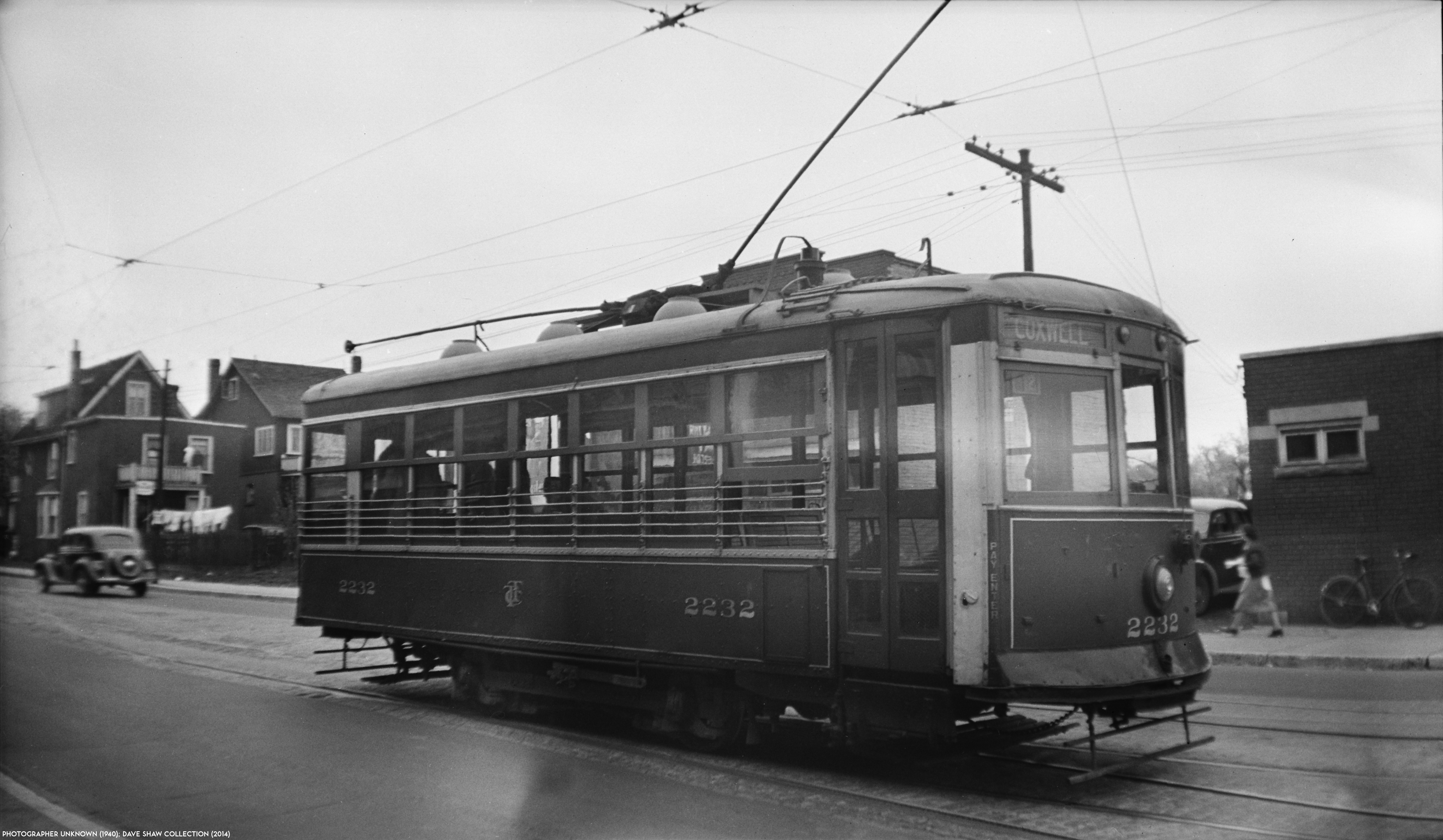 A double-ended Birney streetcar, on Coxwell, in 1940. Note: this vehicle rides on a single truck.